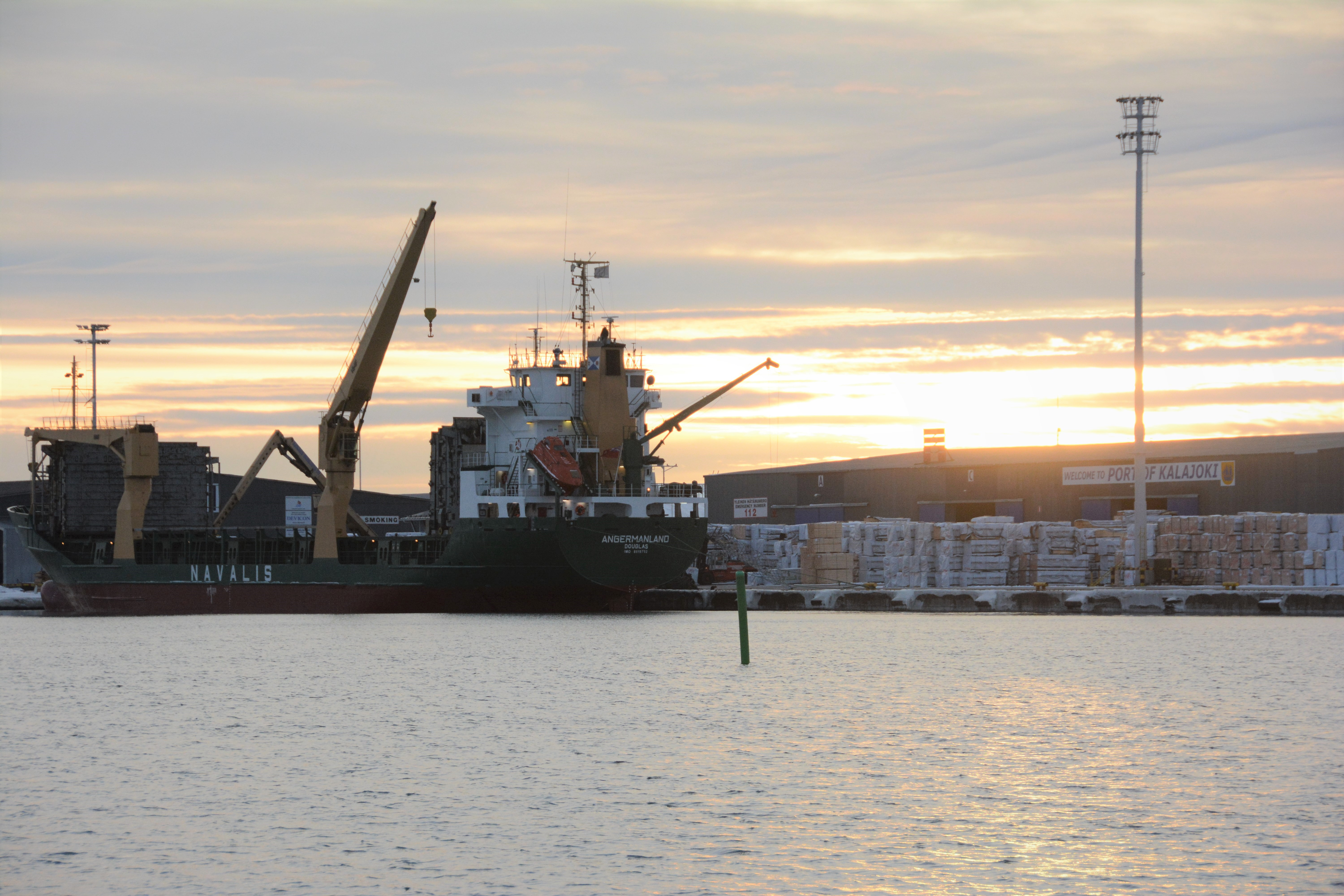 British cargo vessel Angermanland being loaded at the Port of Kalajoki